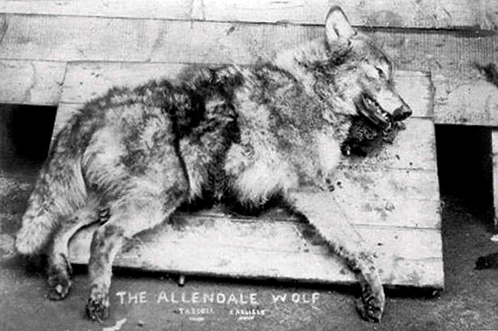 A contemporary postcard showing the wolf killed on the railway near Carlisle on 29 December 1904. Described as The Allendale wolf.